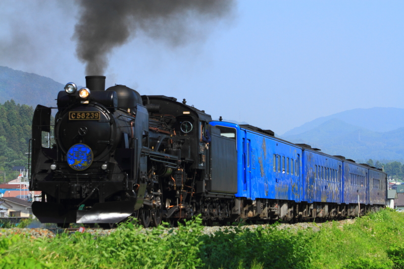 JR East Class C58 steam locomotive C58 239 with the KiHa 141-700 series SL Ginga trainset on the Kamaishi Line